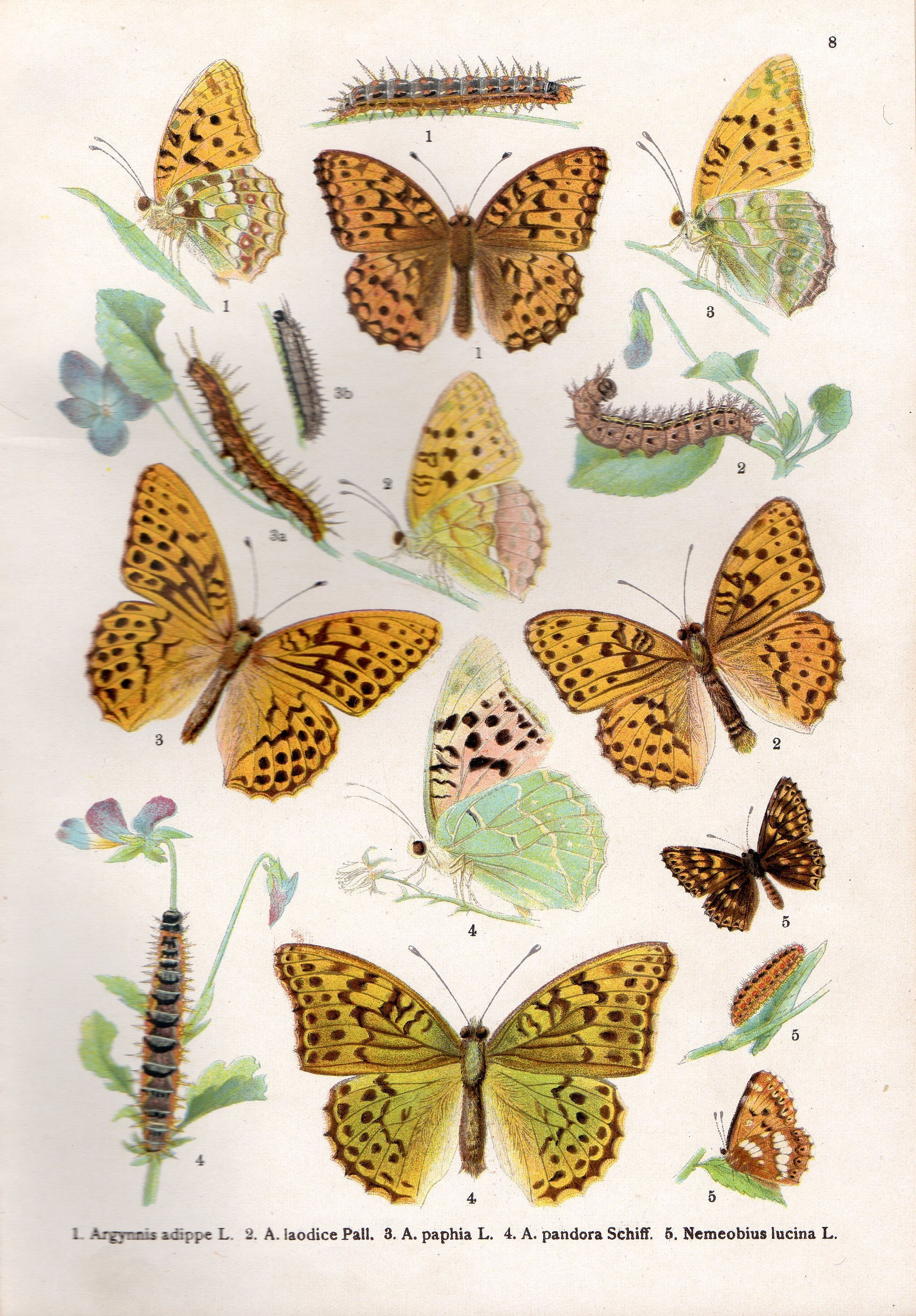 Table of Lepidoptera. From Joukl (1862-1910): "Motýlové a housenky střední Evropy" 1910.